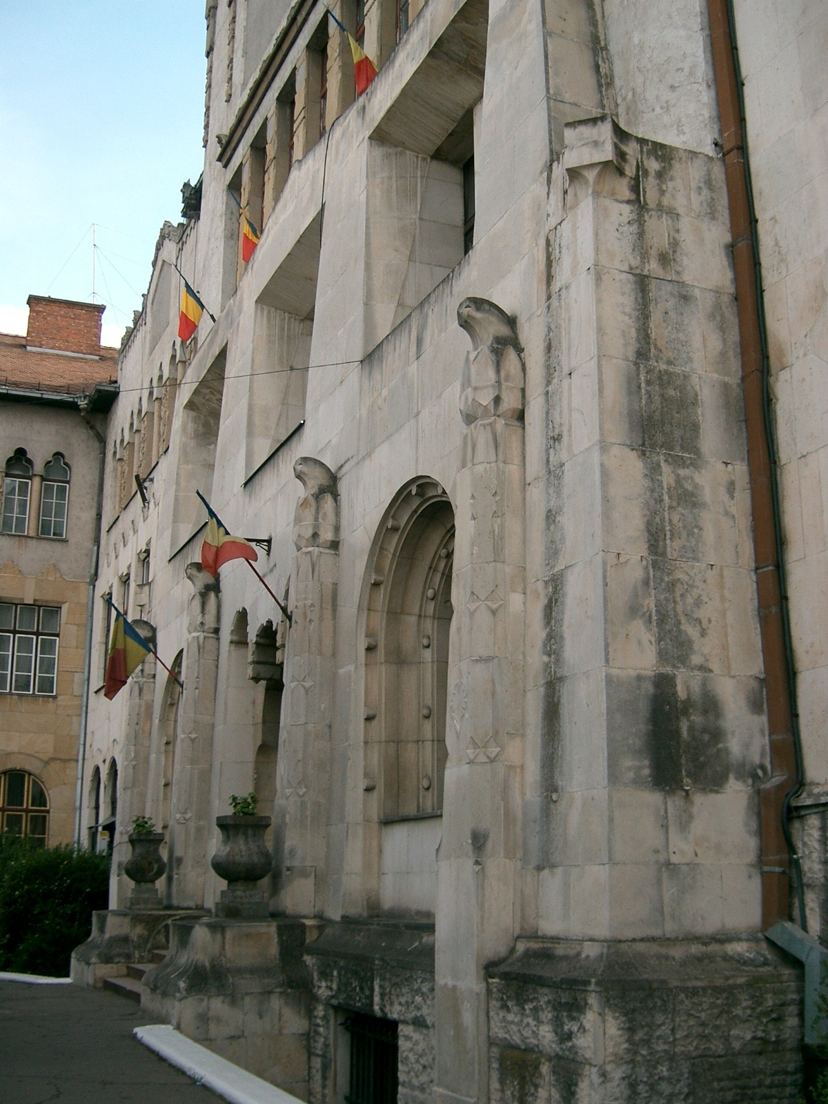 During the communist period It was the local office of Securitate.Now is the local office of National Security Agency